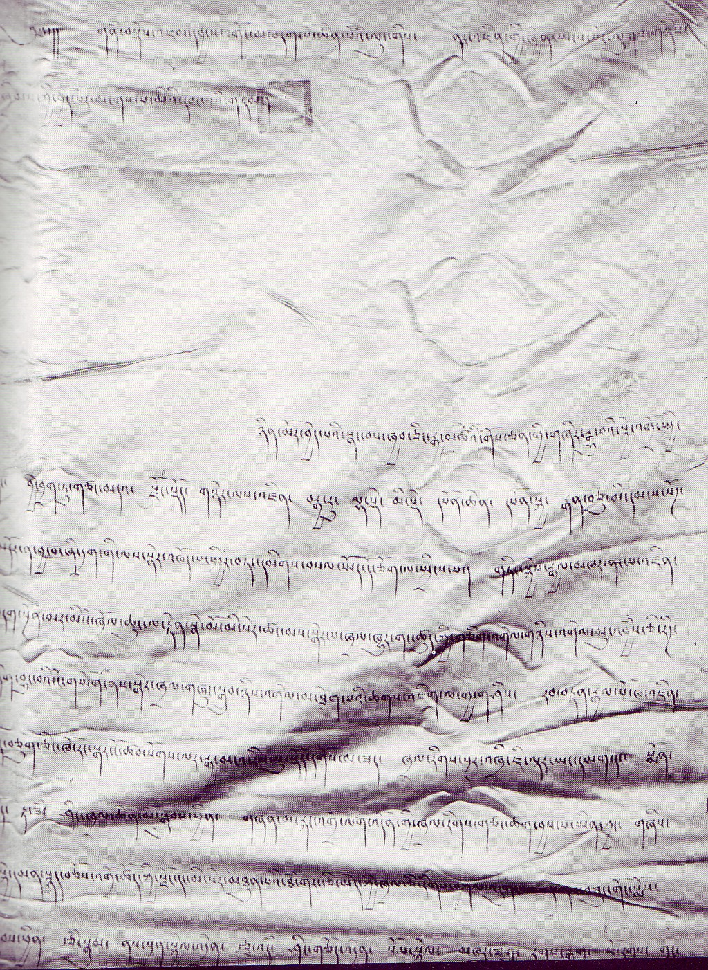 Tibetan legal document by ruler Pholhane 1744